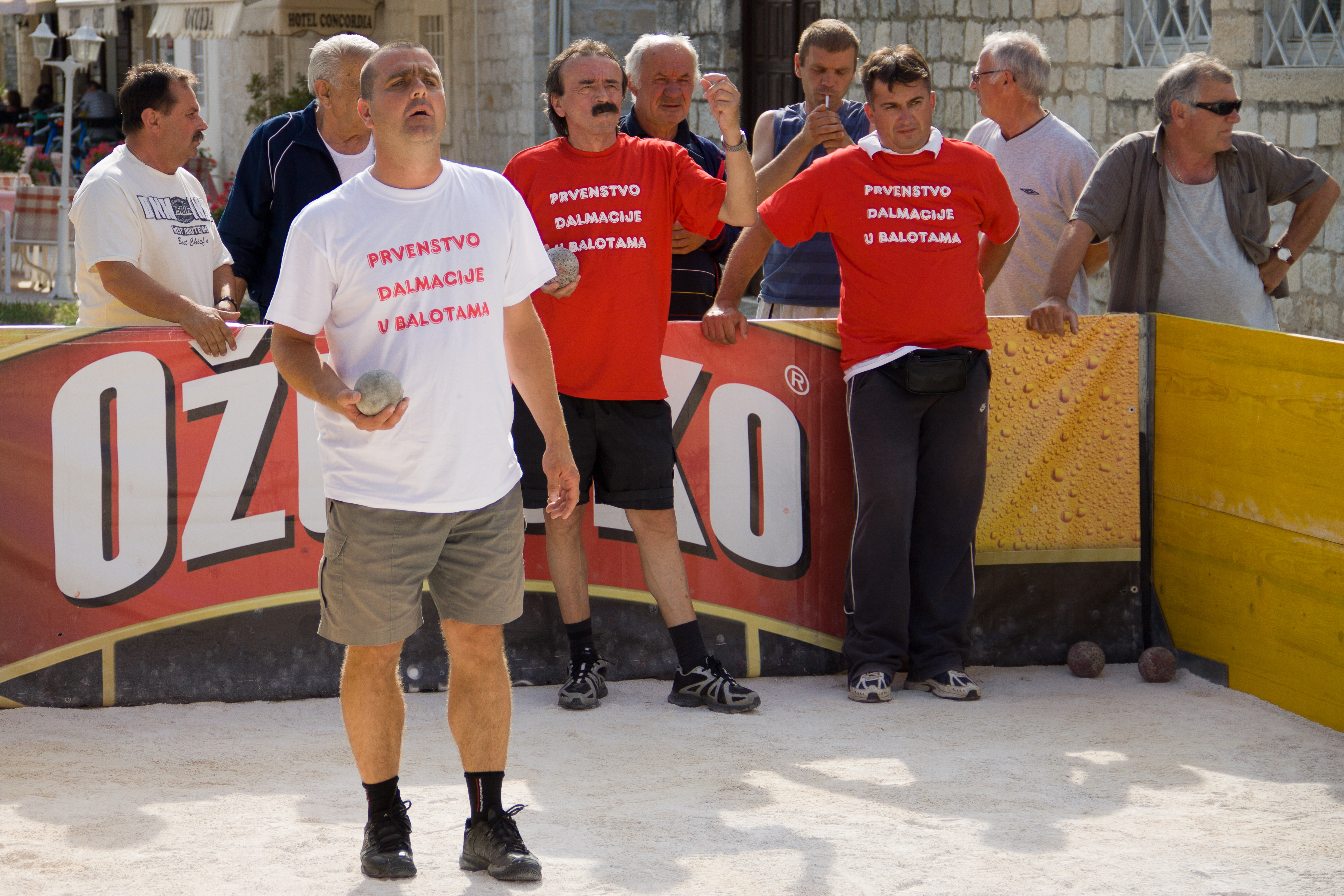 Bocce in Trogir, Croatia.